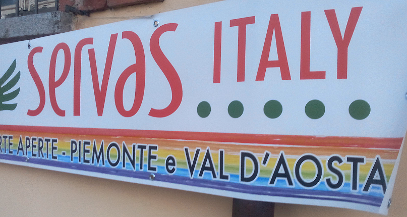 Servas local meeting in Collegno (Piedmont and Aosta Valley members, Italy)